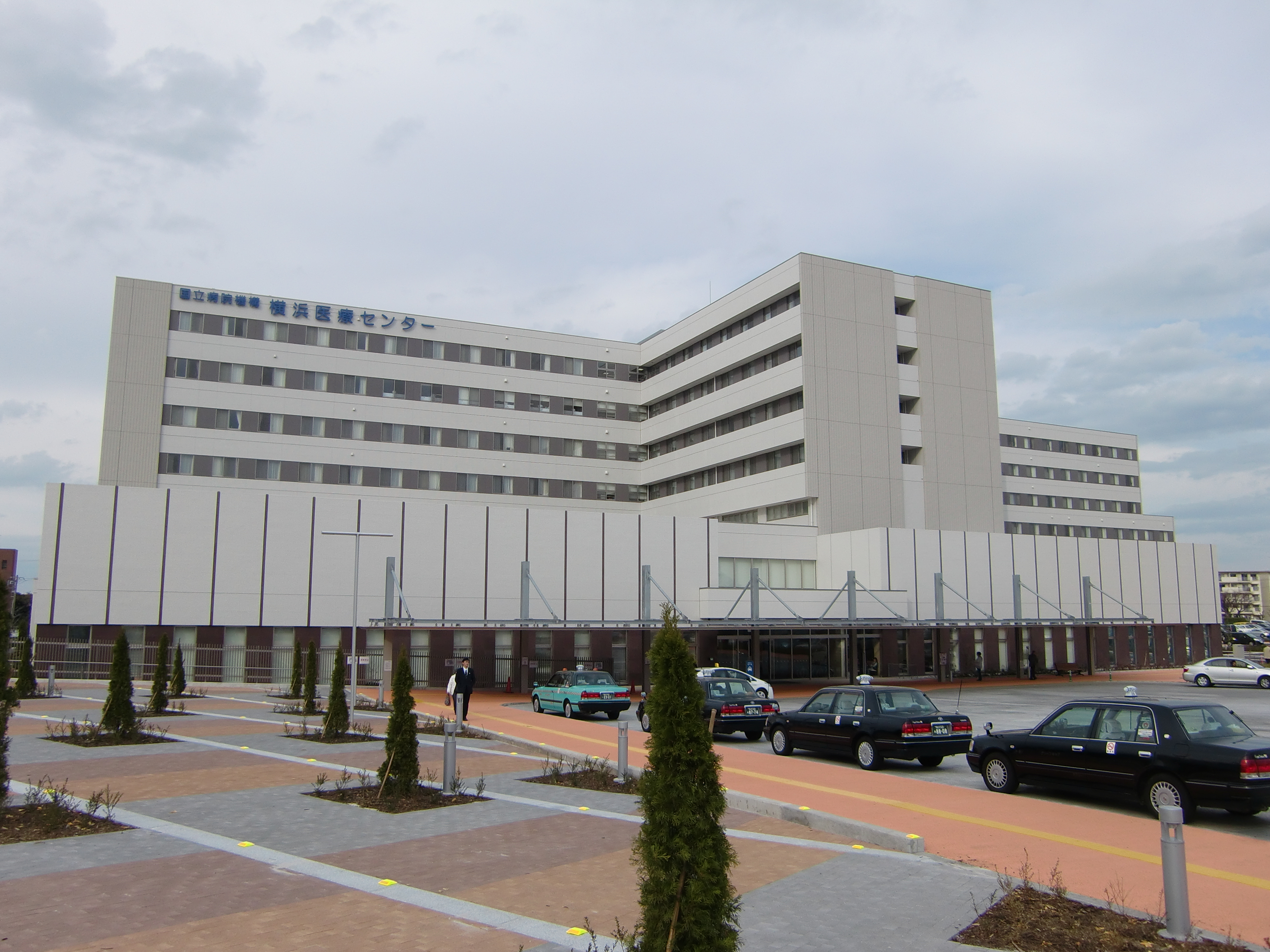 National Hospital Organization Yokohama Medical Center